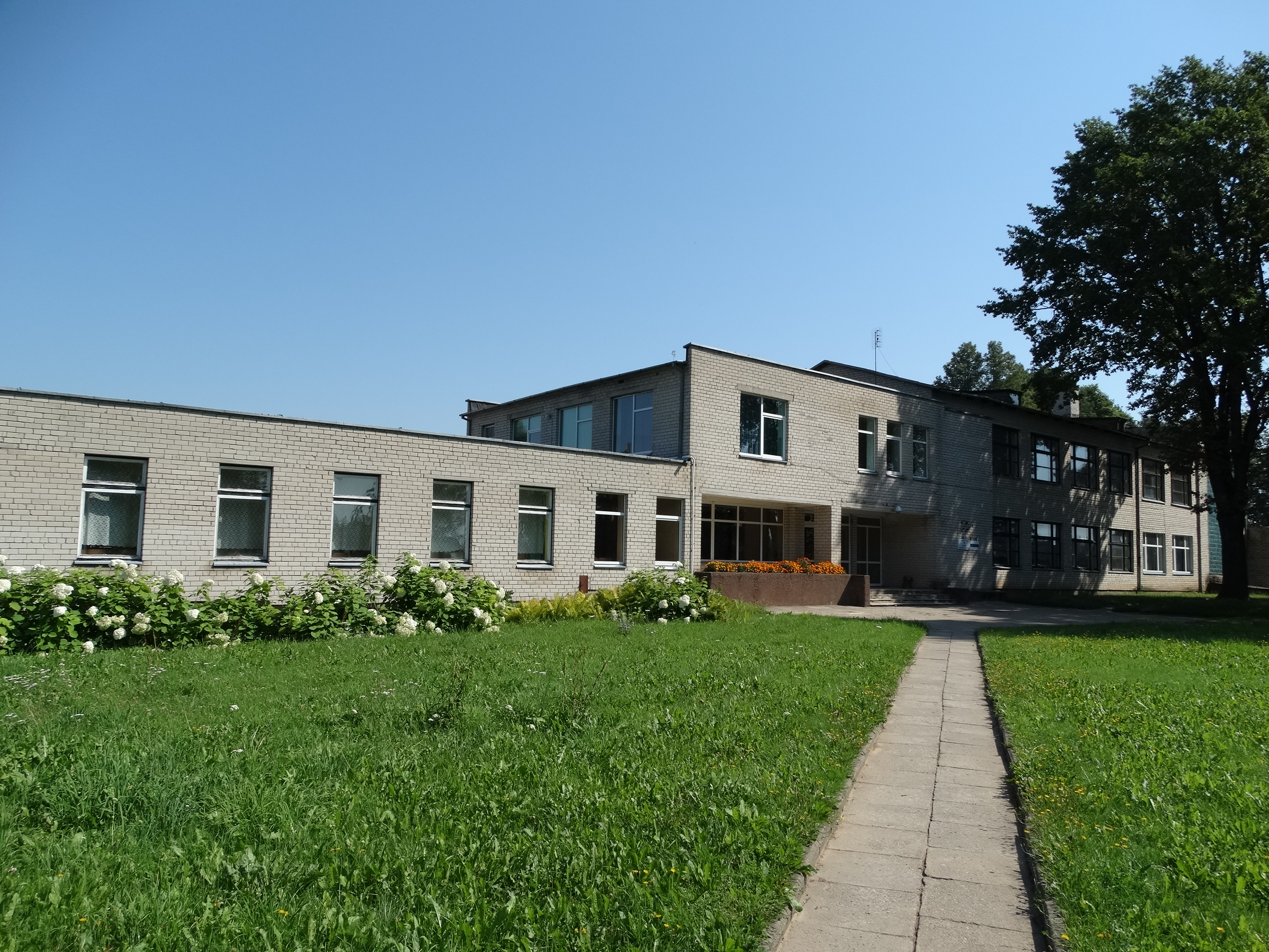 School Kriaunos, Rokiškis District, Lithuania